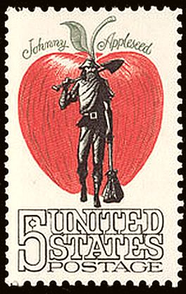 US stamp honoring Johnny Appleseed